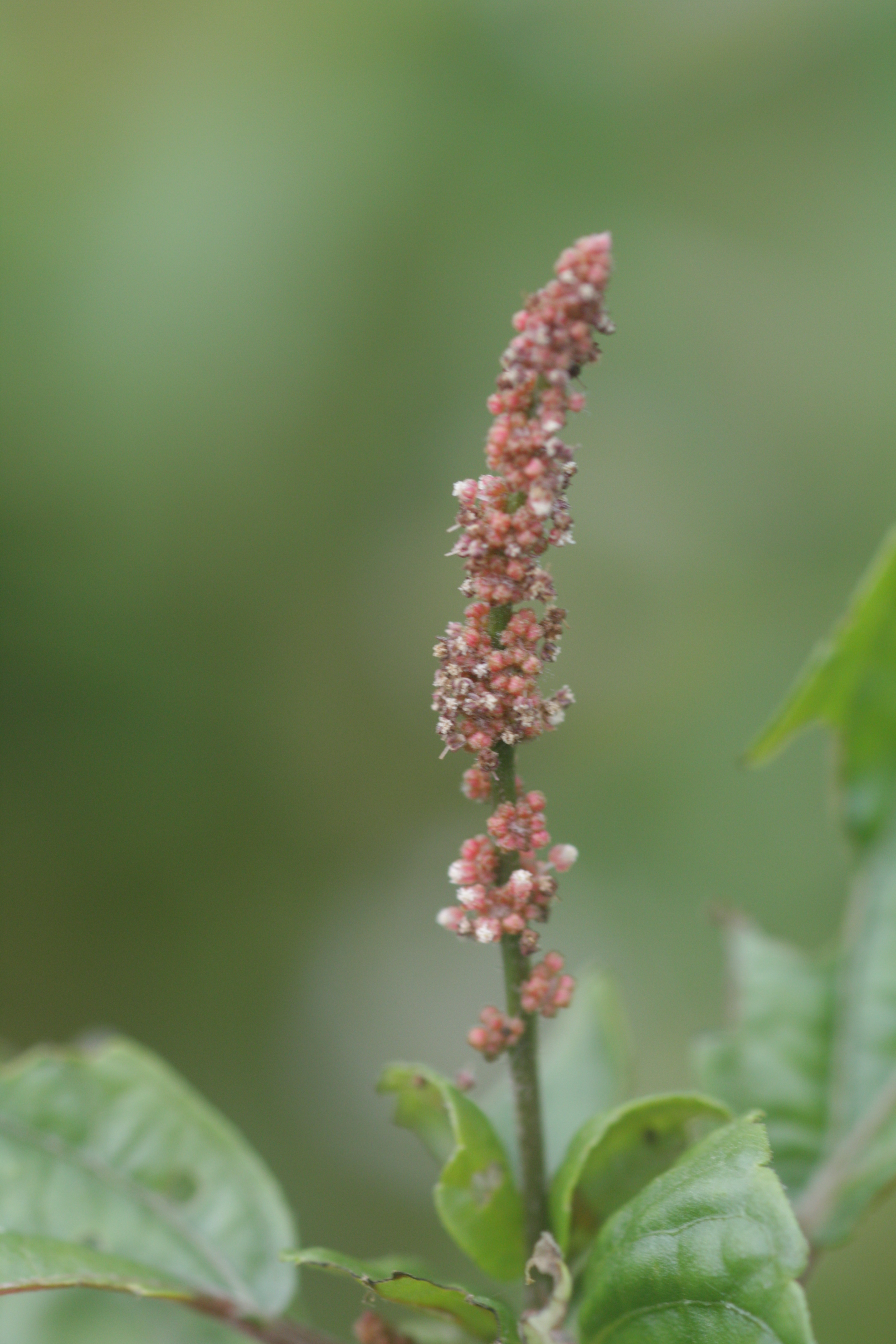 Acalypha australis